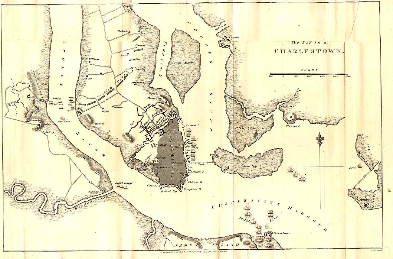 A map of Charleston detailing the British siege in 1780.